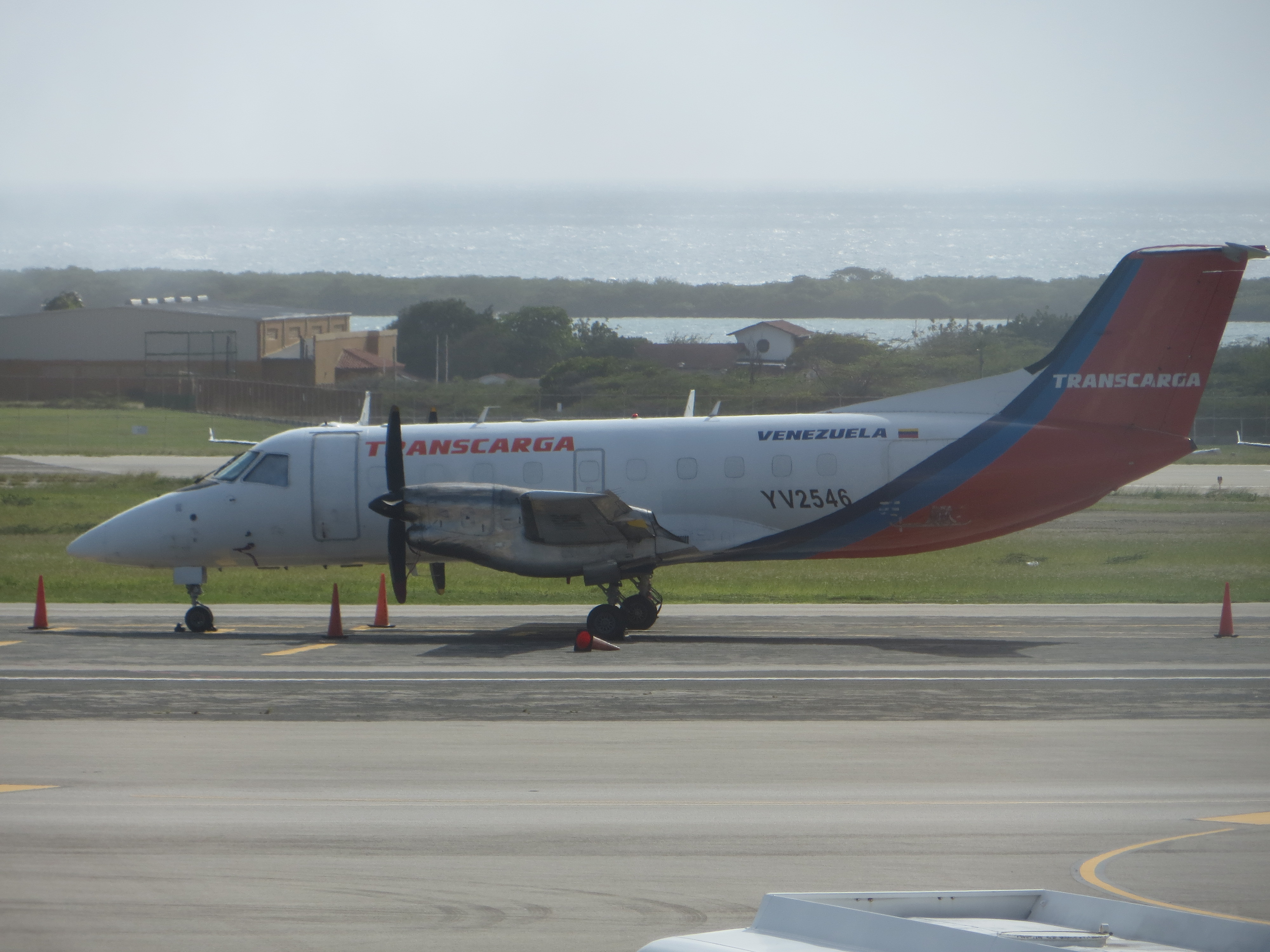 A Transcarga (T9) E120F at AUA